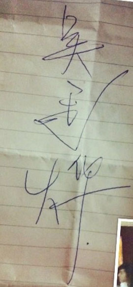 This is Berg Ng's signature.